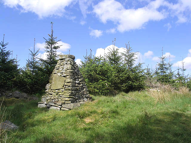 Memorial cairn in Dalswinton Wood The main stone in the cairn is inscribed: 1905-1970 D.E. (TAFFY) LANDALE